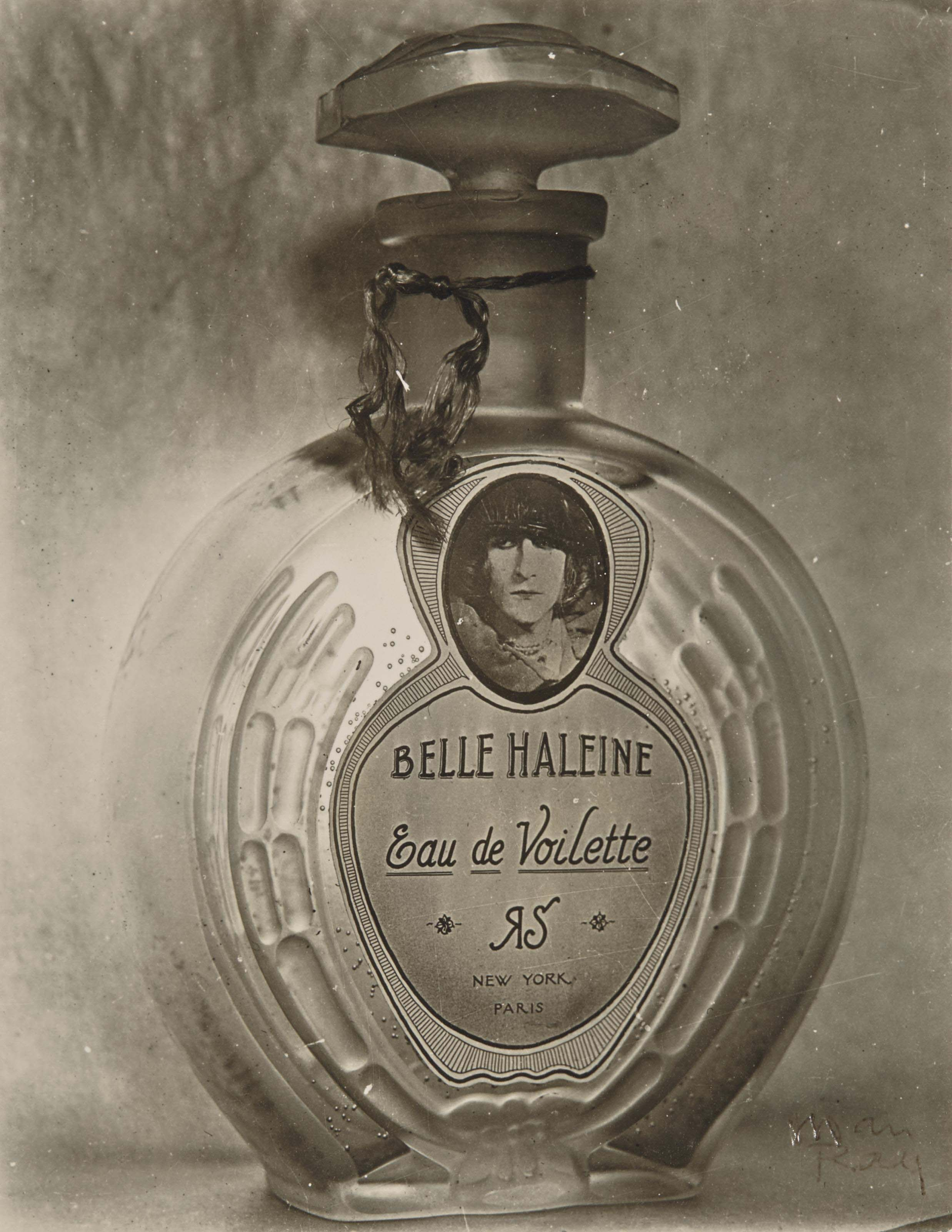 Marcel Duchamp (Rrose Selavy), Man Ray, 1920-21, Belle Haleine, Eau de Voilette. Reproduced on the cover of New York Dada magazine. Photograph of a "readymade" made of a Rigaud brand perfume bottle with a modified label. The photograph was published on the cover of New York Dada, New York, April 1921 (cf. The Oxford Critical and Cultural History of Modernist Magazines: Volume III: Europe 1880 - 1940, p. 177).